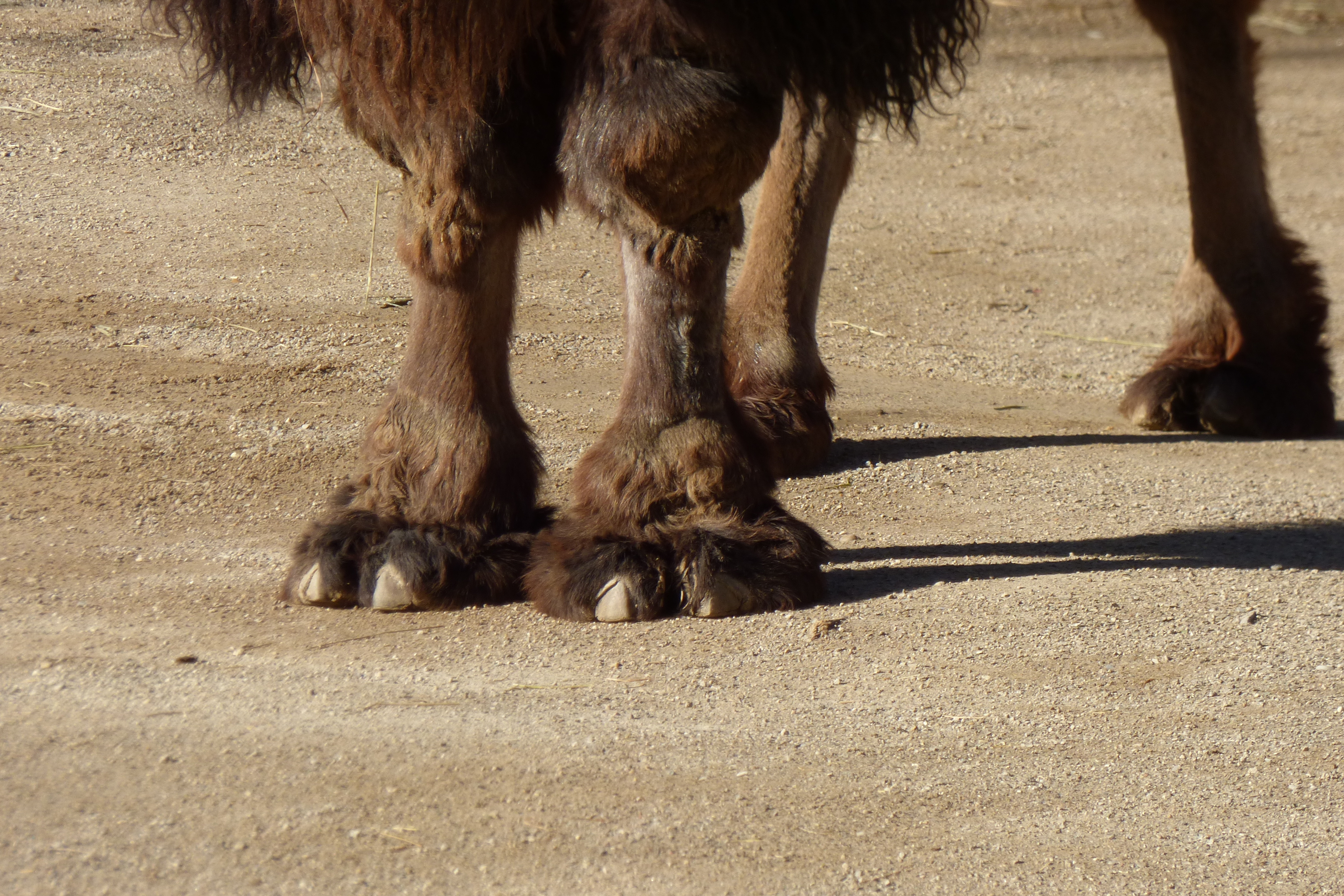 Bactrian camel (Camelus bactrianus) - Detail of feet